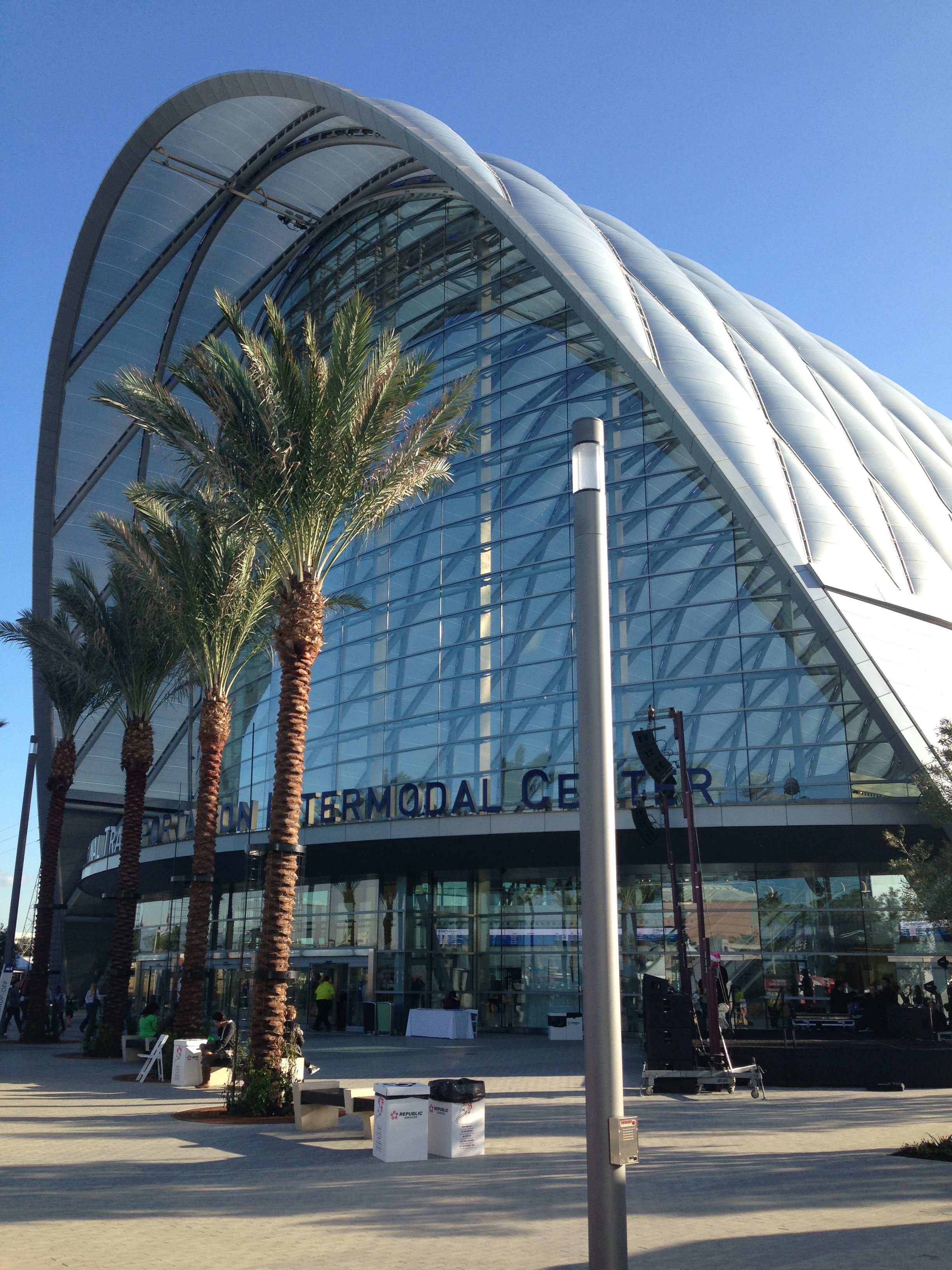 The front of the Anaheim Regional Transportation Intermodal Center, a train station located in Anaheim, California.